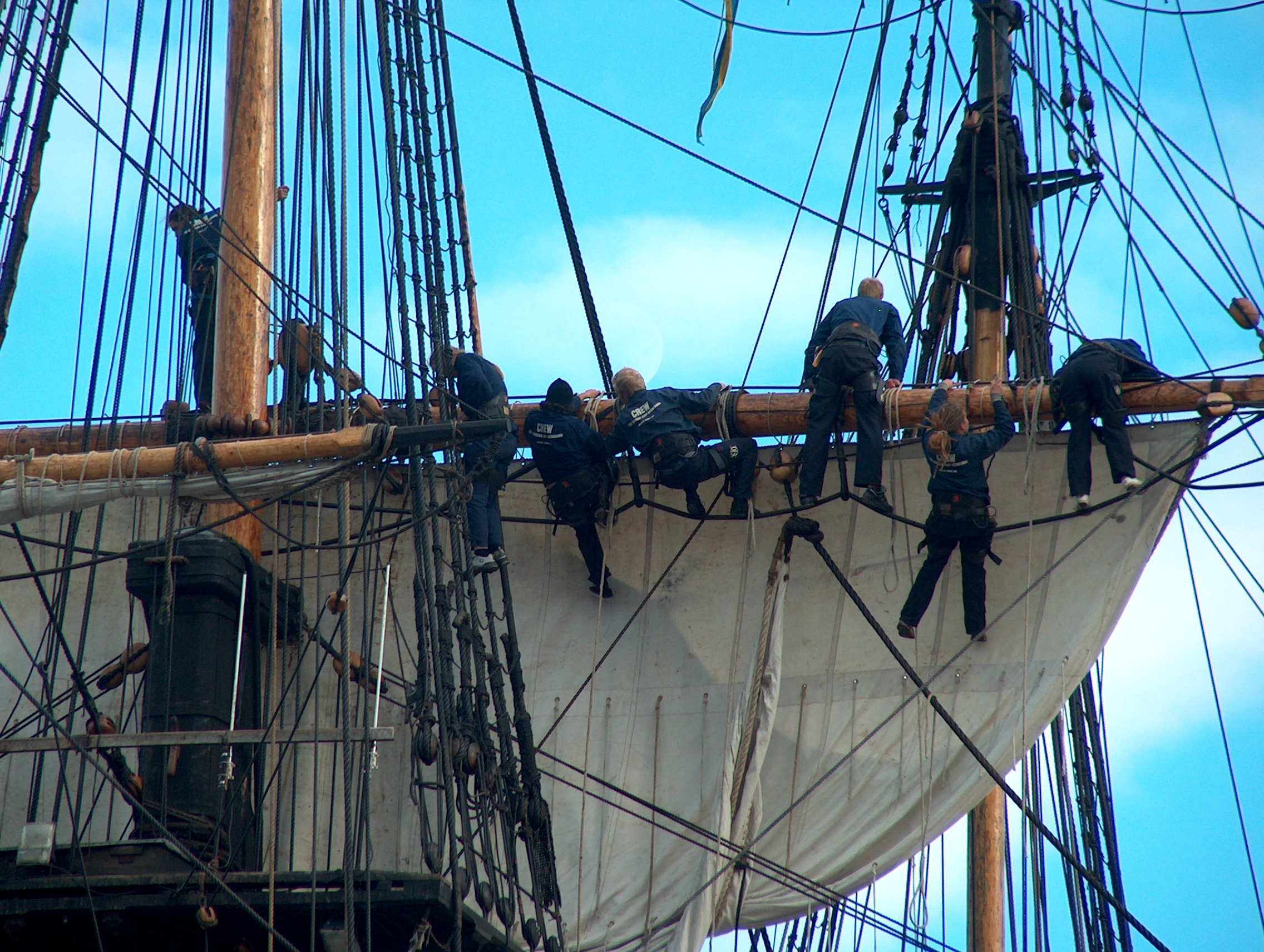 Götheborg - Sailors working on sails